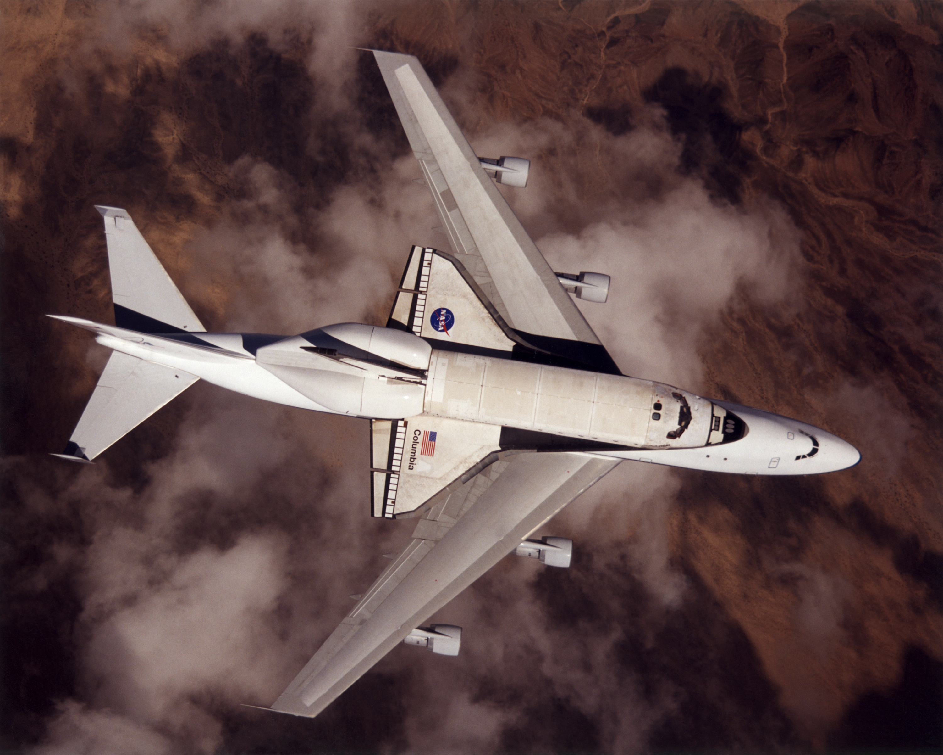 NASA space shuttle Columbia hitched a ride on a special 747 carrier aircraft for the flight from Palmdale, California, to Kennedy Space Center, Florida, on March 1, 2001. A half hour behind Columbia's takeoff, the shuttle Atlantis departed the NASA Dryden Flight Research Center at Edwards Air Force Base, California, also bound for Kennedy Space Center.